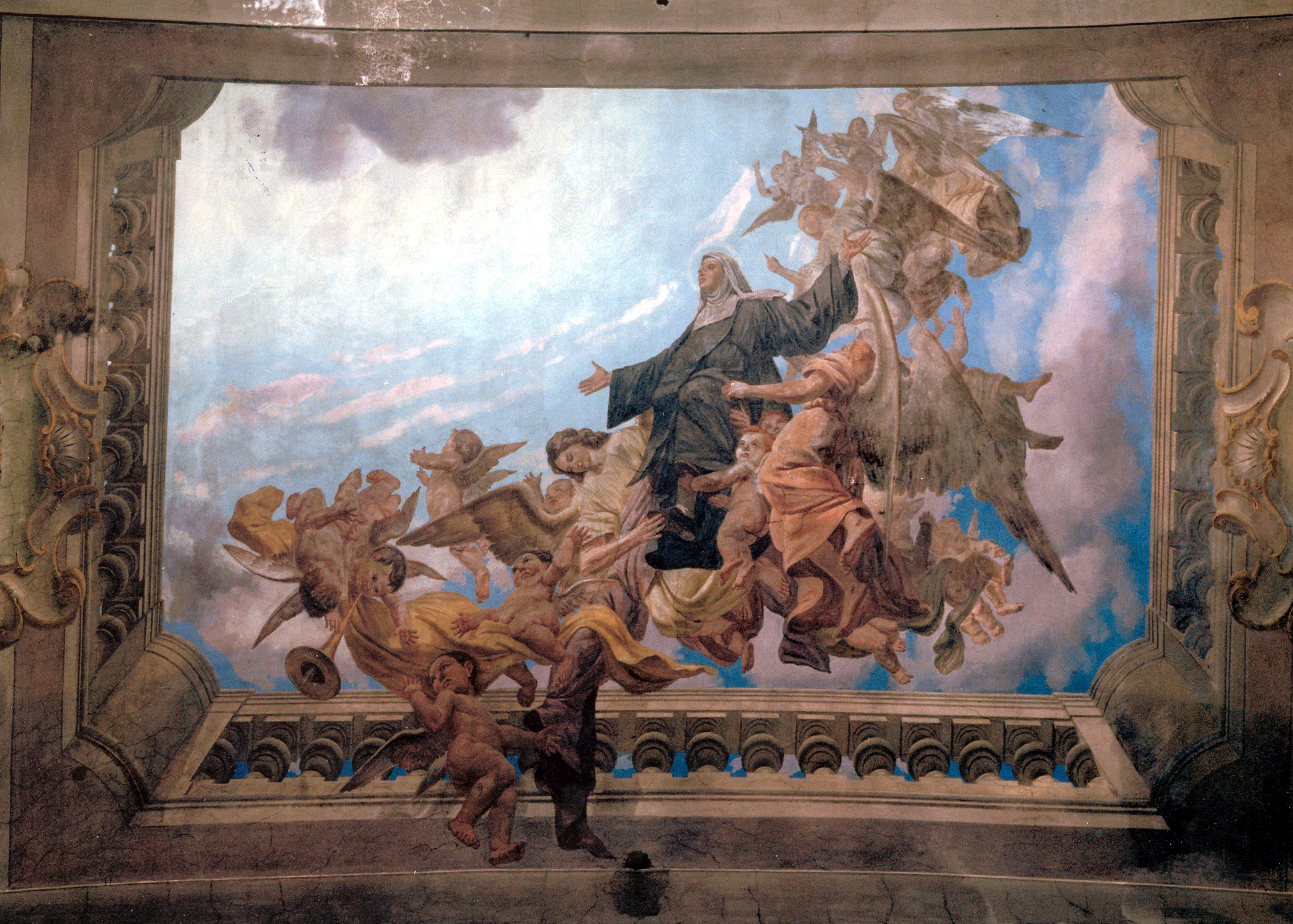 Church of Binasco: Assumption of the Veronica of Milan. Frescos by Luigi Migliavacca.